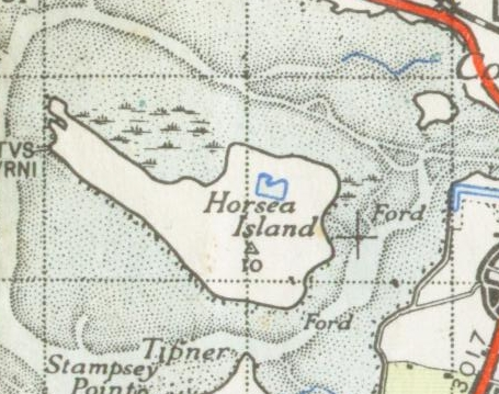 Reproduced from the 1945 OS map